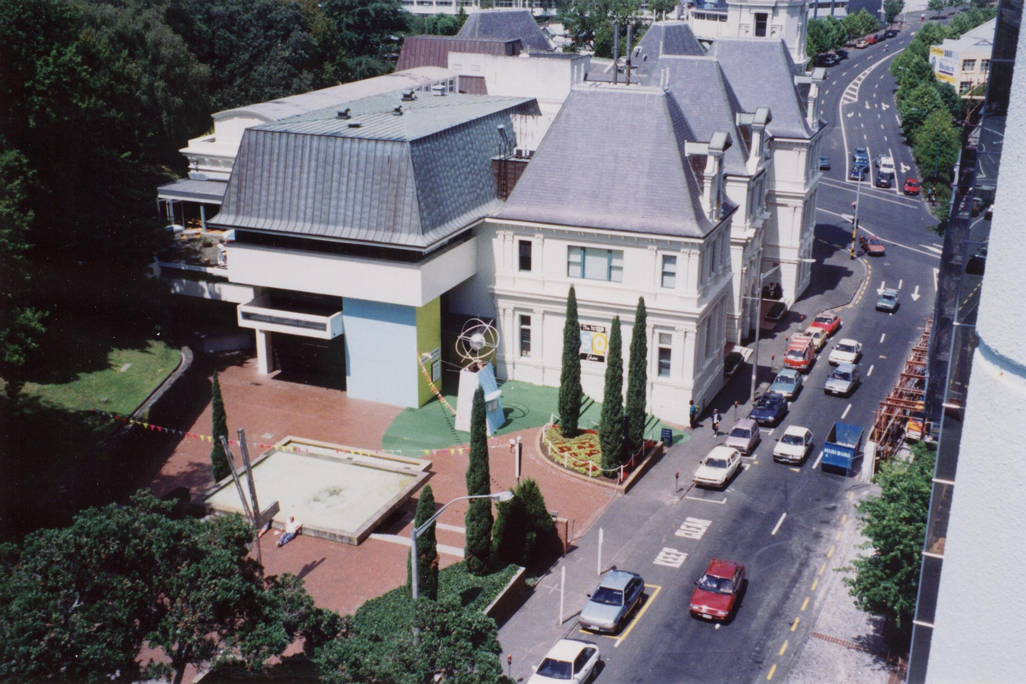 Auckland Art Gallery before the extension works of the late 2000s. Note the works on the Freyberg Suqare in the lower right, where the Suffragette Memorial (unveiled 1993) is presumably just being installed. Flickr info: "During the 1ZB 50's exhibition, Nov-Dec 1992 ish."